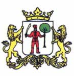 Coat of arms of Köröm, Hungary